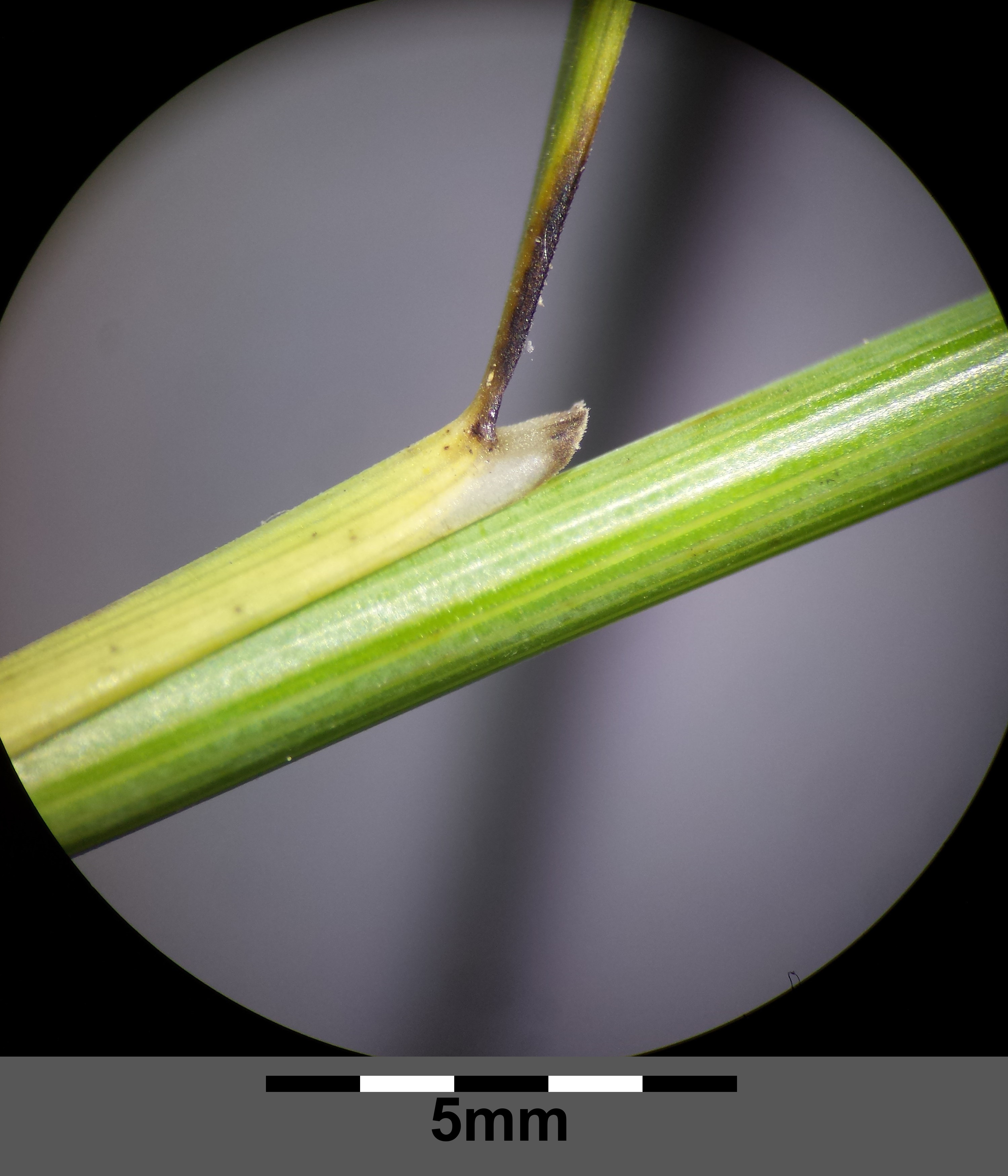 Stipe with leaf and ligule Taxonym: Stipa pennata ss. orig. ss Fischer et al. EfÖLS 2008 ISBN 978-3-85474-187-9 Location: Geißberg near Eggendorf im Thale, district Hollabrunn, Lower Austria - ca. 300 m a.s.l. Habitat: semi-dry grassland